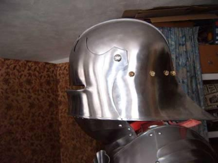 German sallet, about 1480